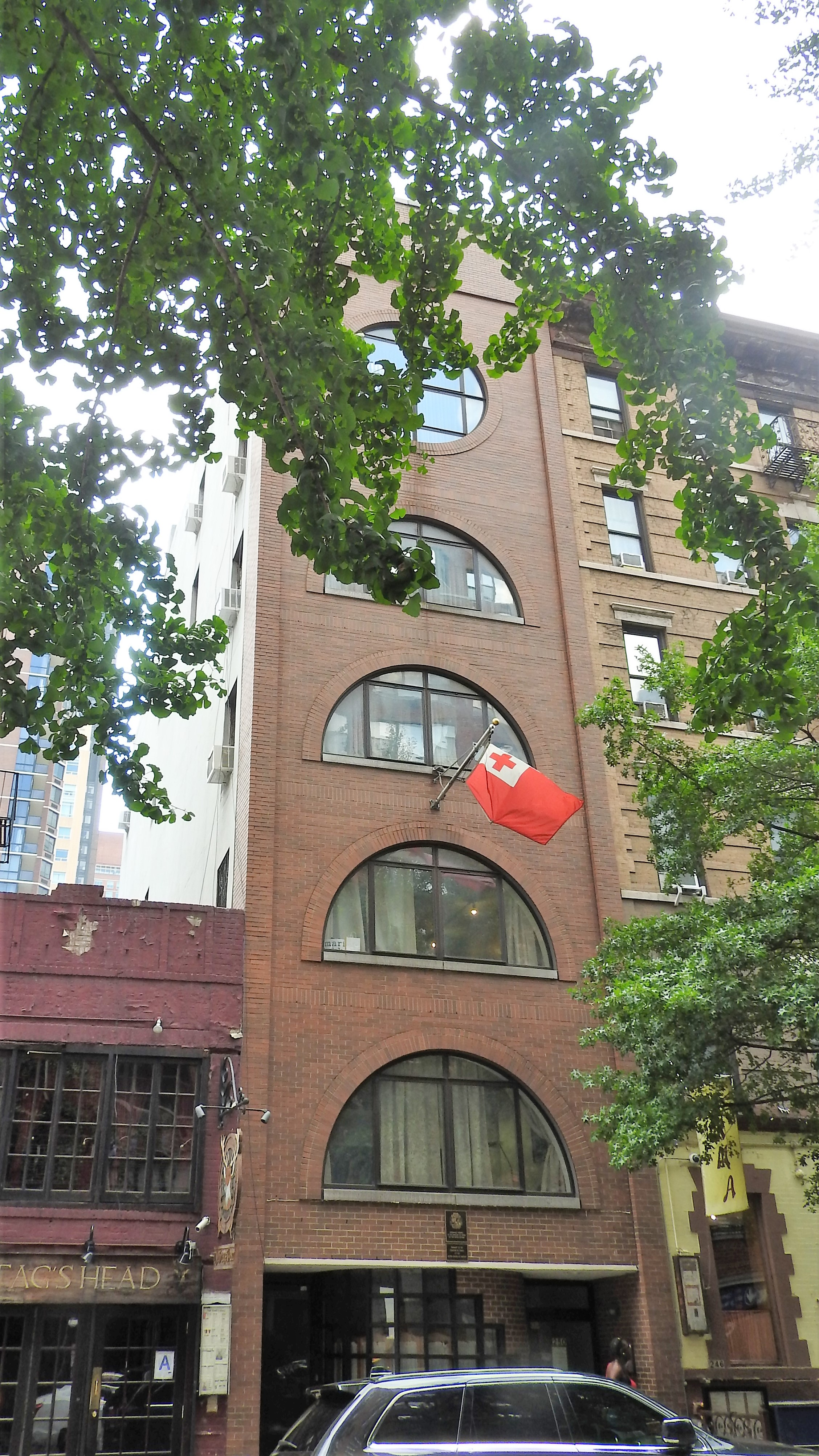 Looking southwest at Tongan Embassy